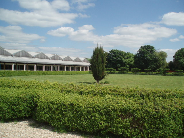 Fishbourne Roman Palace